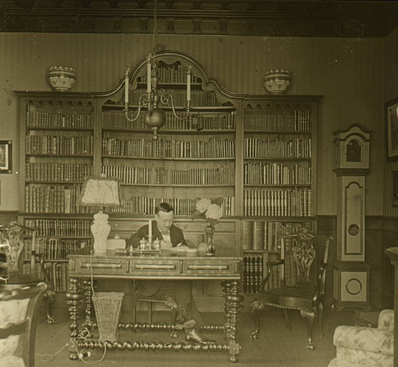 António Egas Moniz in his study, 1918.